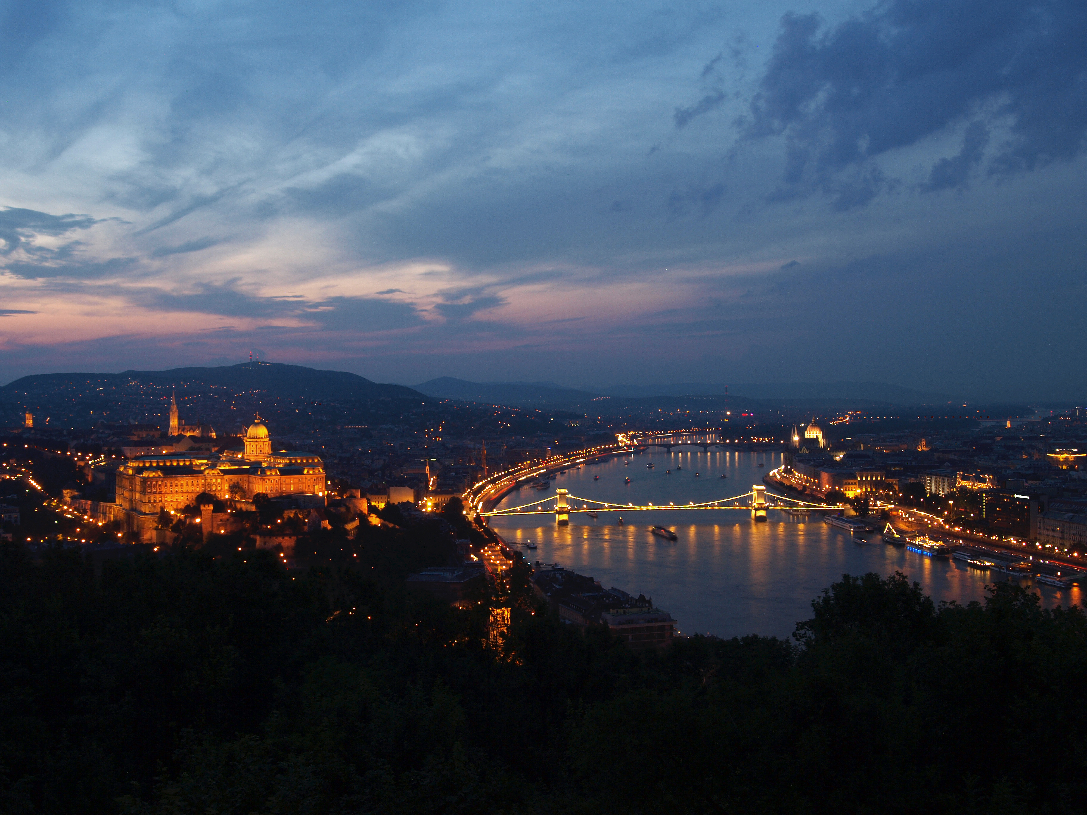 Former Royal Castle (Budapest 1. district, Szent György square, 6.)